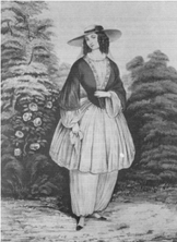 "Bloomer" dress of the 1850s.